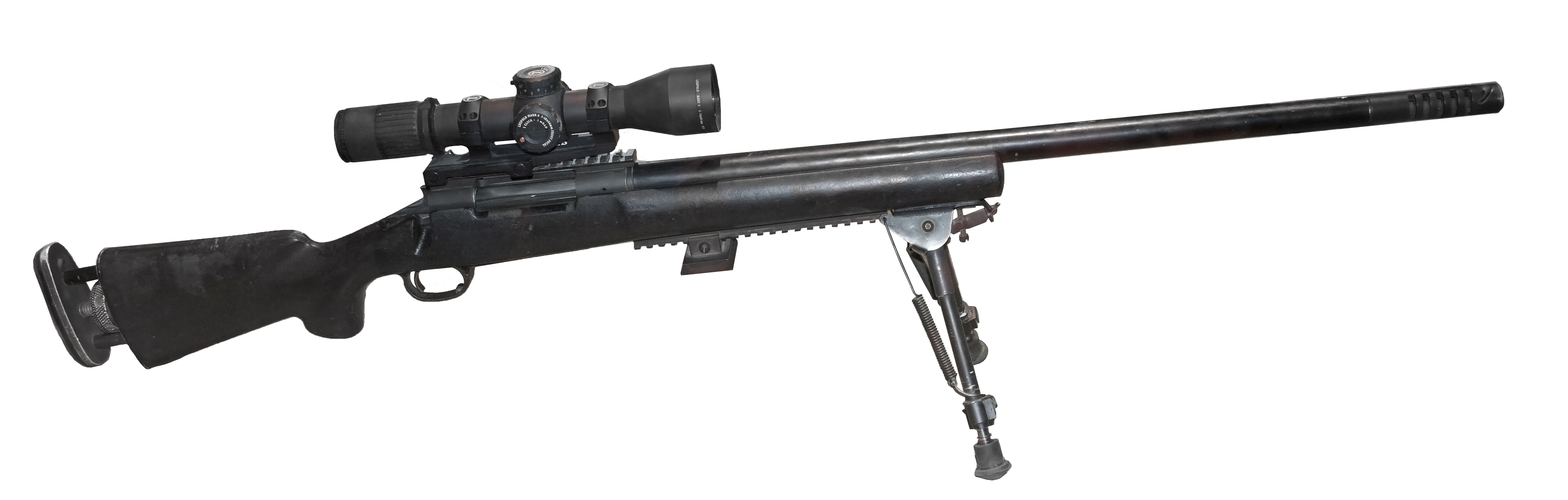 Remington M24 SWS with Leupold Mark 6 scope sight and bipod, and beside it Leupold X6-X20 spotter scope, Our IDF 70, Israel